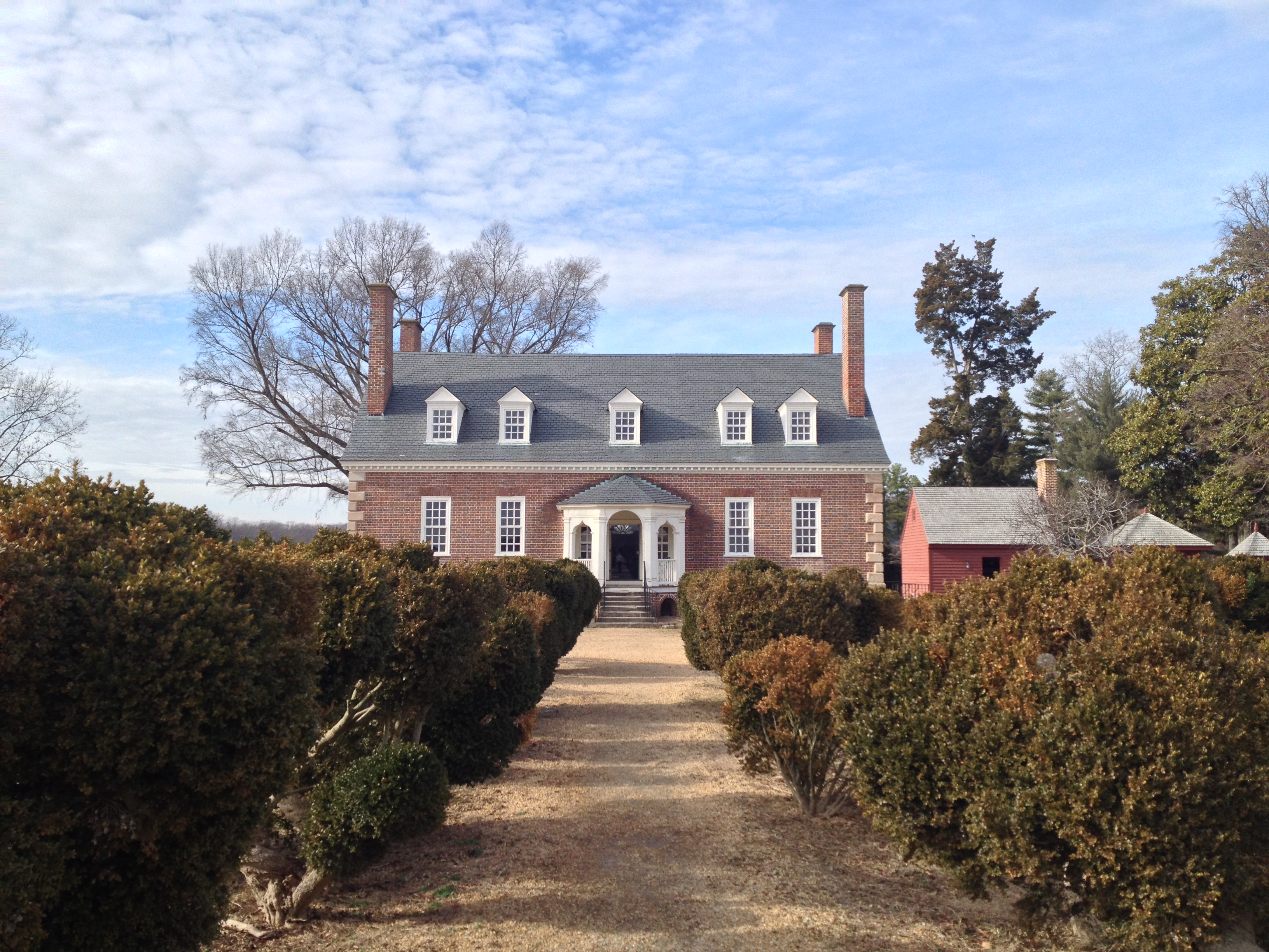 Gunston Hall, photographed on February 2, 2014.